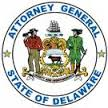 Seal of the Attorney General of Delaware.